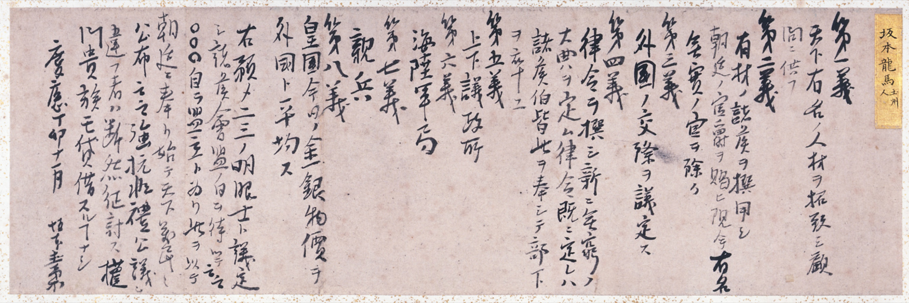 This manuscript is the handwritten draft of proposals formulated by Sakamoto Ryōma (1836-67) and Gotō Shōjirō (1838-97), pro-imperial activists from the Tosa Domain (now Kochi prefecture) in western Japan, in 1867. In this document, Ryōma and Shōjirō proposed an eight-point program of political reforms to be undertaken by the new imperial government after the expected resignation of Tokugawa Yoshinobu (1837-1913), the last shogun. The proposed reforms included enactment of new fundamental laws, recruitment of capable people to serve as government advisers, establishment of diplomatic relations with foreign powers, and establishment of a parliament and of a headquarters for the army and the navy. Politics and government